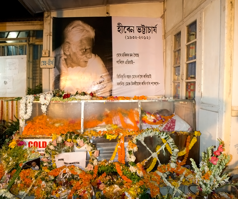 Hiren Bhattacharyya (Assamese: হীৰেন ভট্টাচাৰ্য) (1932 - 4 July 2012) was one of the best known poets working in the Assamese language. He had innumerable works published in Assamese and achieved many prizes and accolades for his poetry.